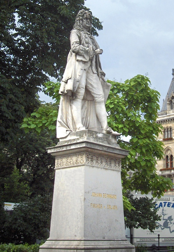 Johann Bernhard Fischer von Erlach (20 July 1656 - 5 April 1723) was probably the most influential Austrian architect of the Baroque period